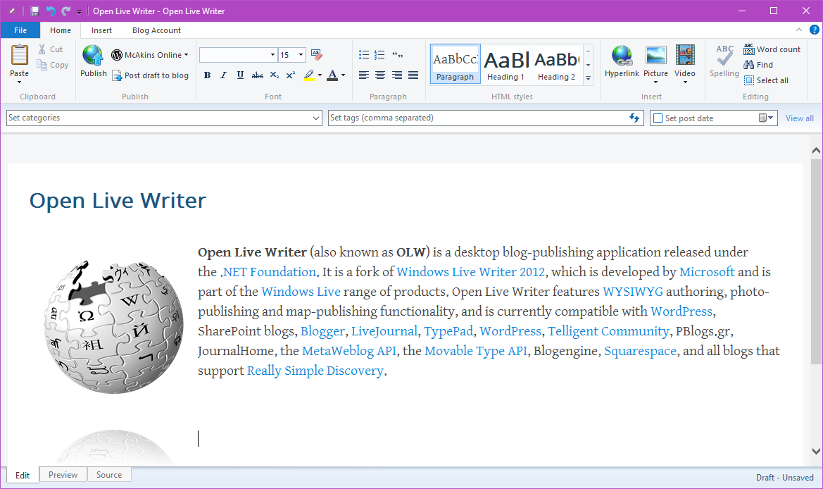 Screenshot of an open-source app called Open Live Writer, version 0.5.